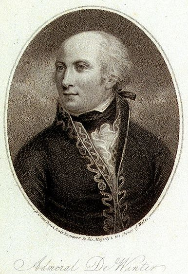 Admiral de Winter (from the Original Picture). Painted by Mr Orme & presented by the Admiral to Lord Viscount